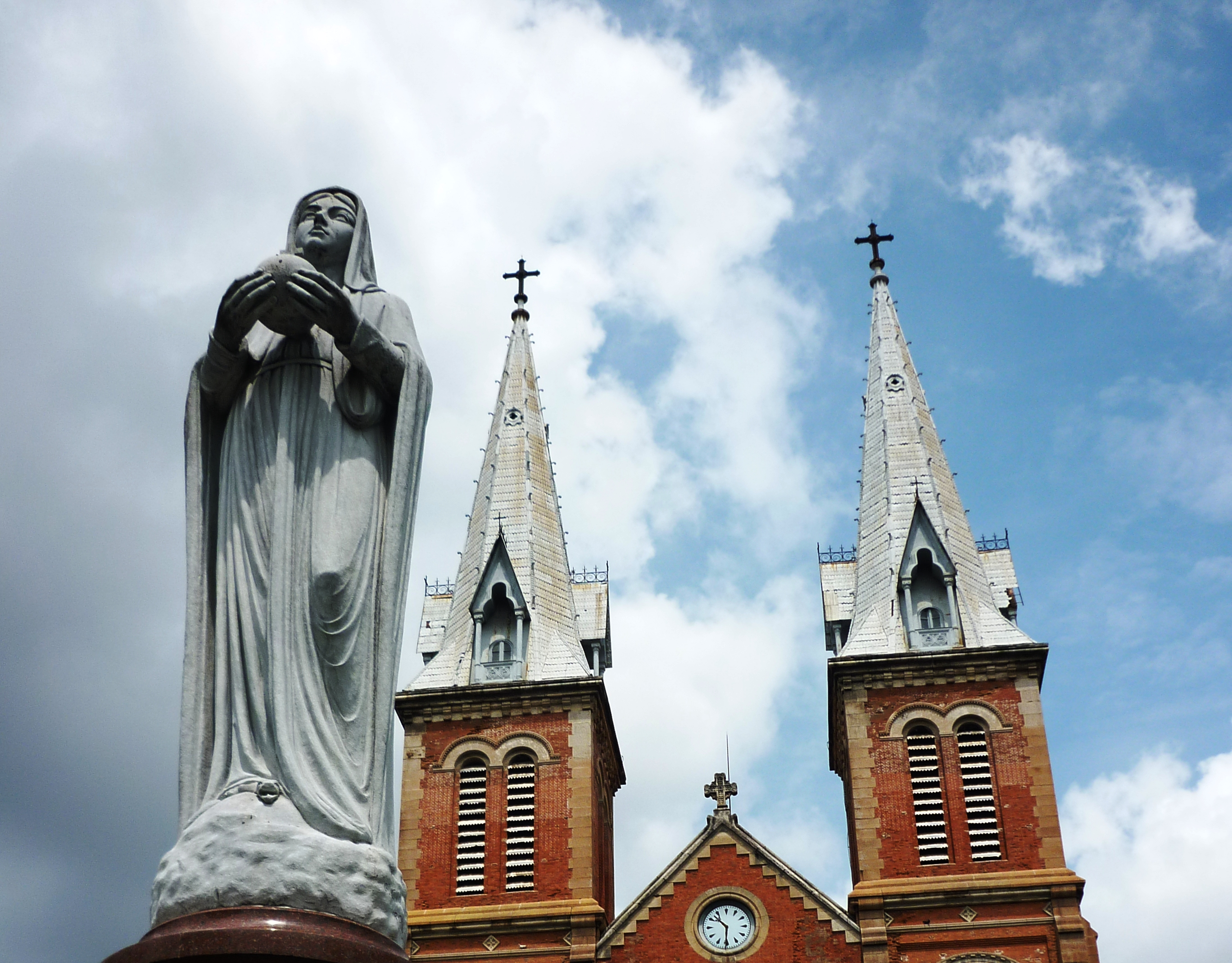 Notre Dame Cathedral, Saigon, Vietnam with statue